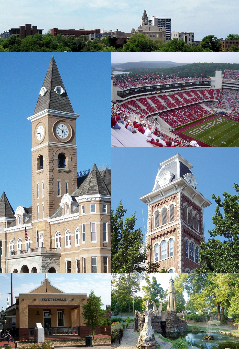 Collage of Fayetteville, Arkansas